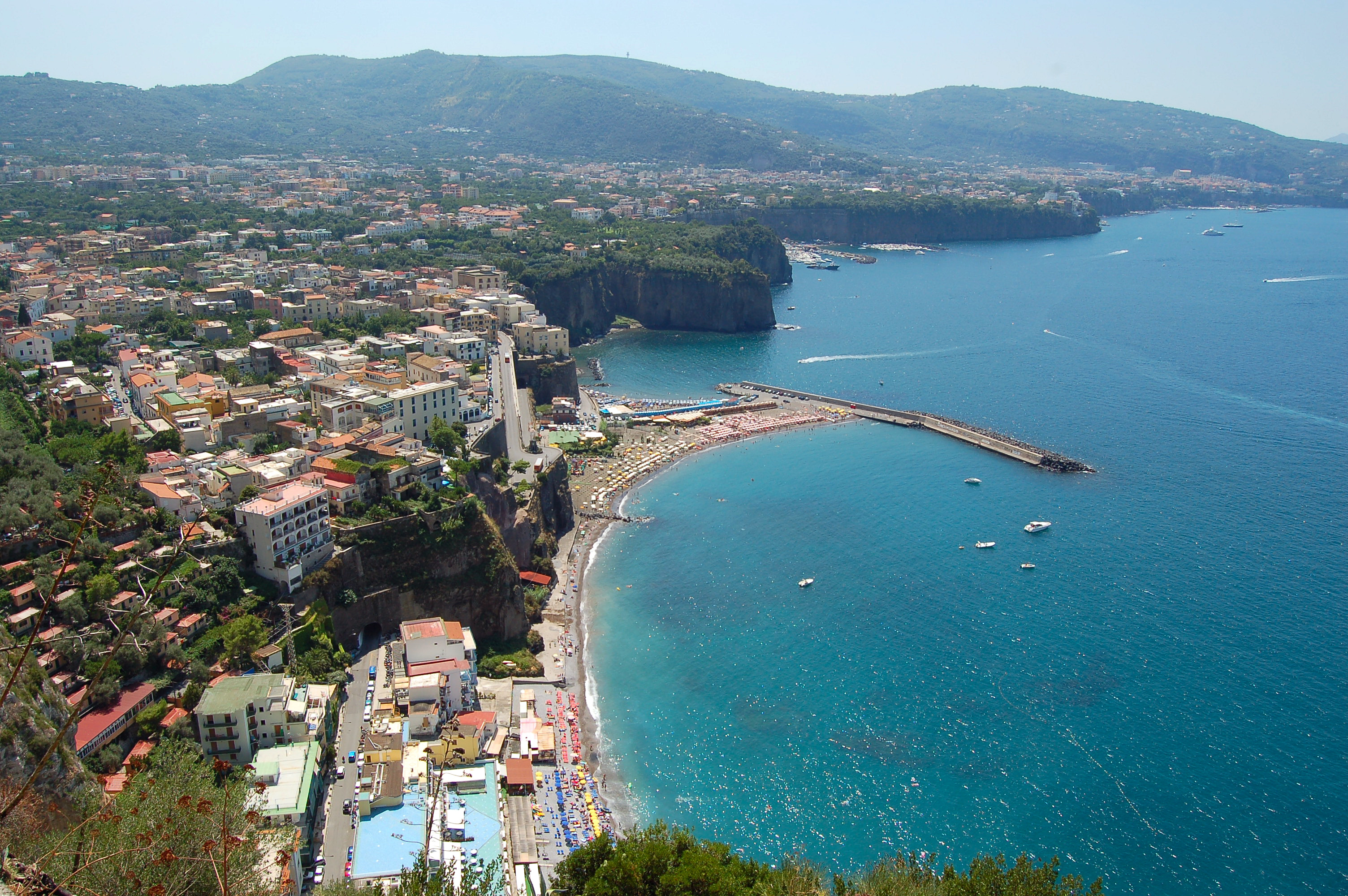 Sorrento - City view